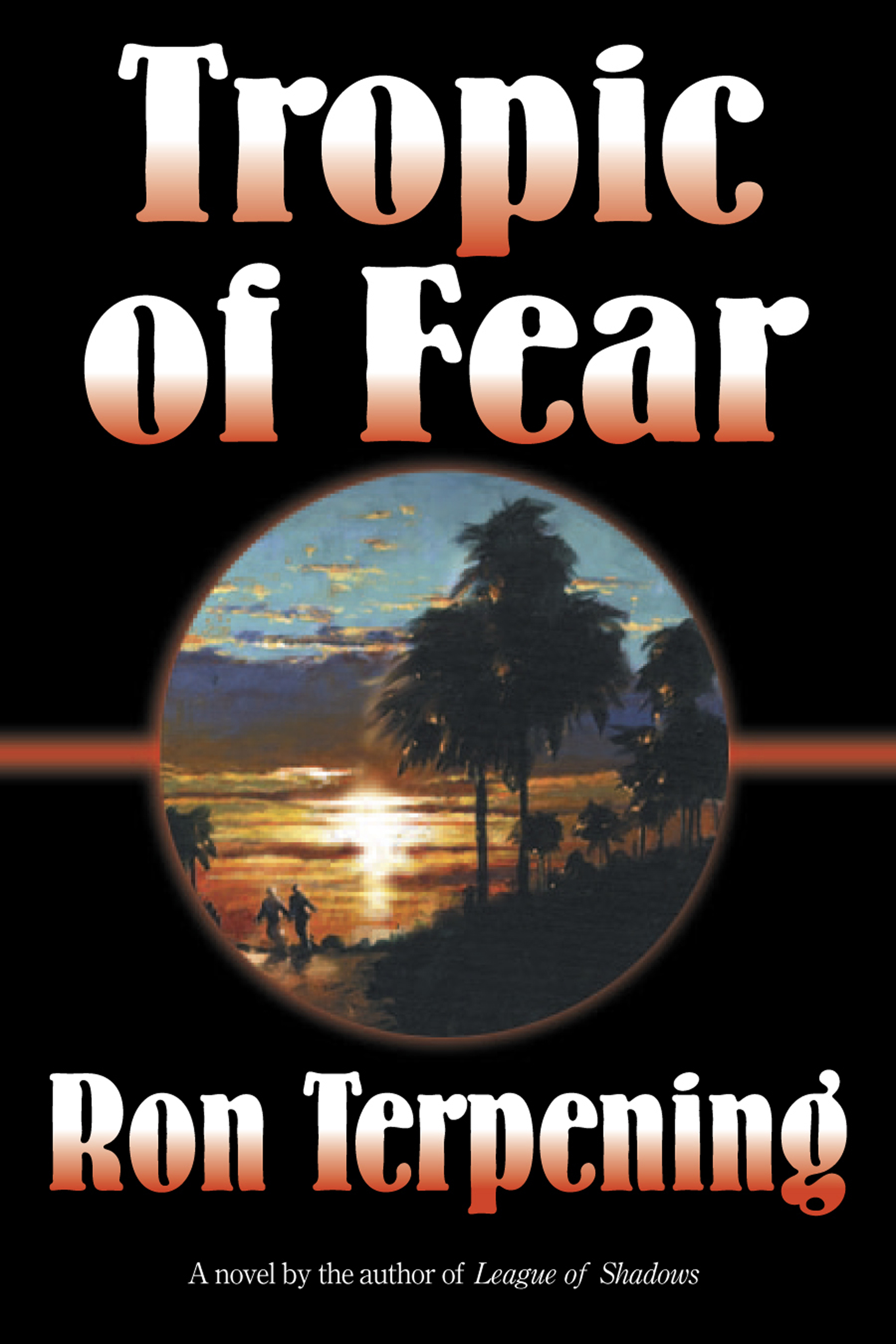 Tropic of Fear front cover